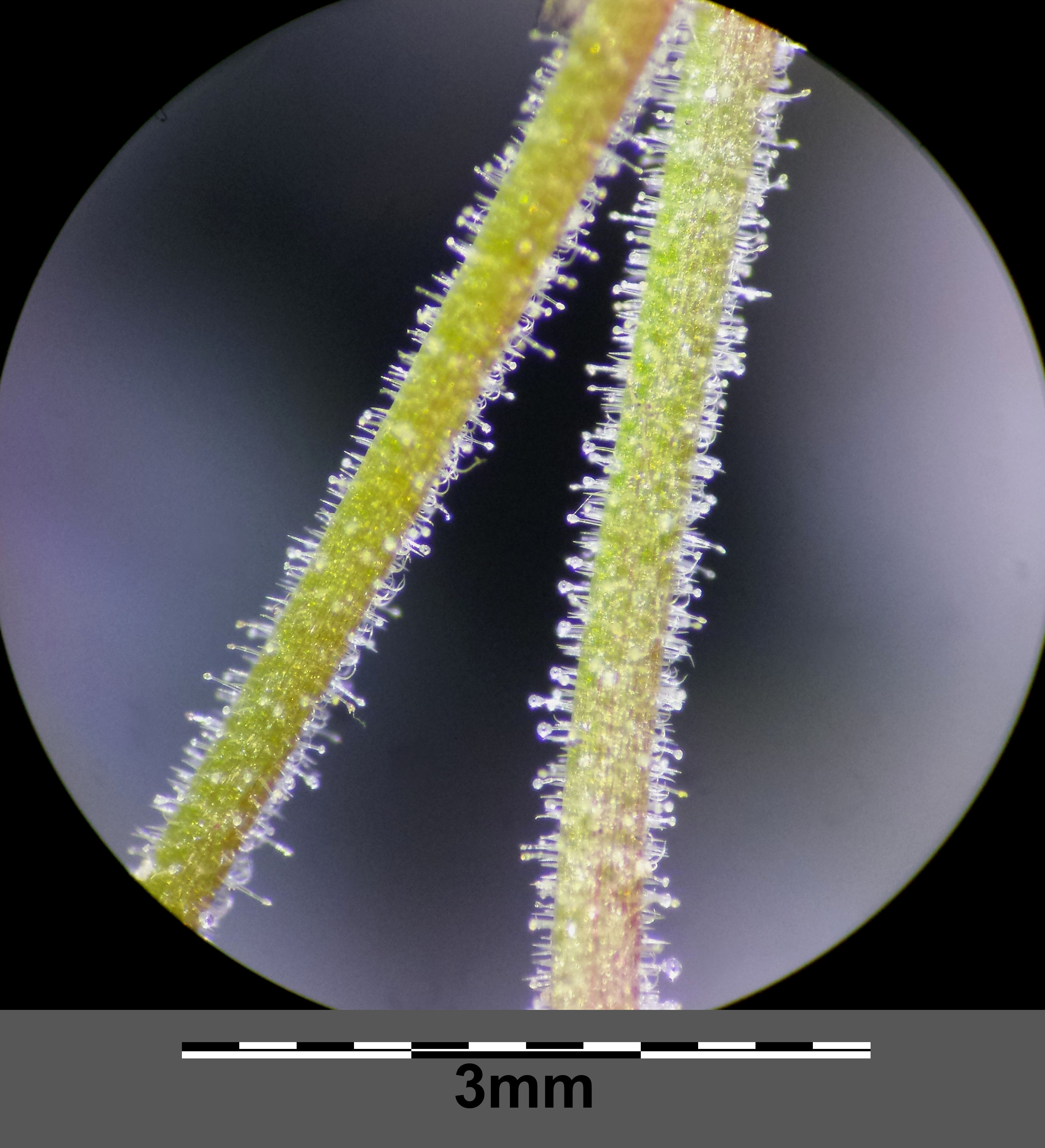 Hairy pedicels Taxonym: Geranium pusillum ss Fischer et al. EfÖLS 2008 ISBN 978-3-85474-187-9 Location: Eichleiten to the North of Enzersfeld, district Korneuburg, Lower Austria - ca. 250 m a.s.l. Habitat: vineyard